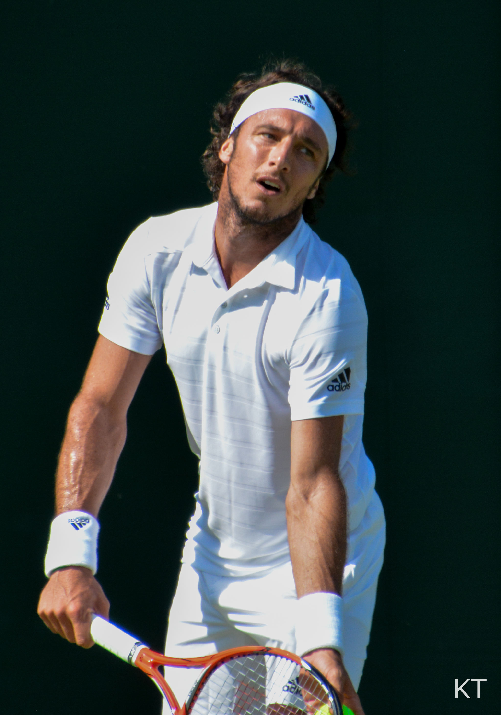 Day 1 of Wimbledon 2015.